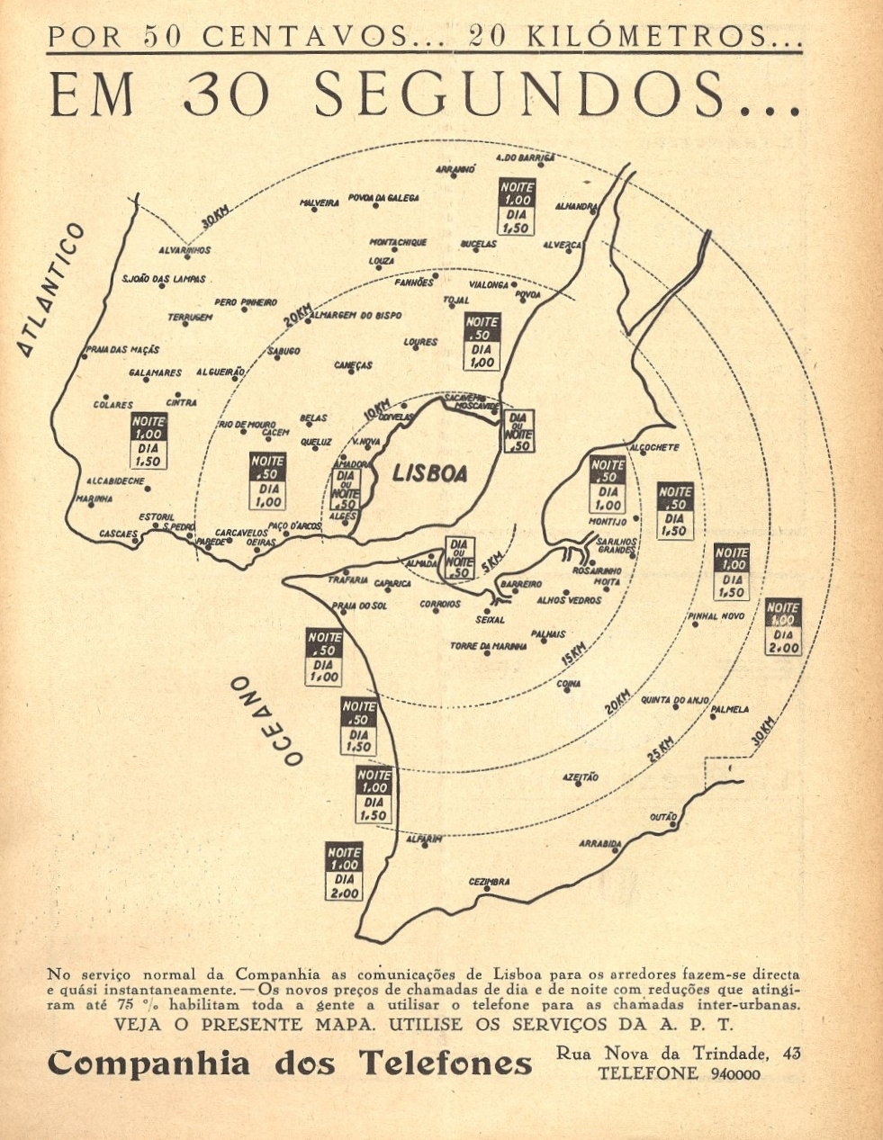 Advertisement of the Anglo-Portuguese Telephone Company, showing the call charges in the area of Lisbon, in Portugal. This image was published on the Gazeta dos Caminhos de Ferro magazine no. 1173, of the 1st November 1936, and scanned by the Hemeroteca Municipal de Lisboa.